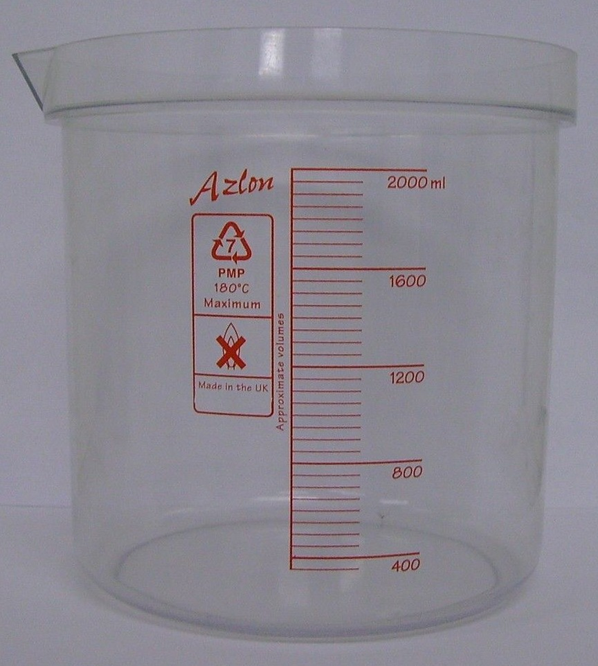 2L low form beaker made of polymethylpentene (PMP), transparent, rigid, red silk-screened graduations indelible, good resistance to chemicals (acids, bases, alcohols) at room temperature, good resistance from 20 to 150 °C (180 °C for a short duration), supports repeated autoclaving at 135 °C.